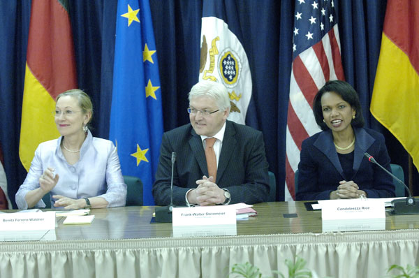 Secretary Condoleezza Rice with German Foreign Minister Frank-Walter Steinmeier and European Commissioner for External Relations and European Neighborhood Policy Benita Ferrero-Waldner at the U.S.-EU Energy CEO Forum.